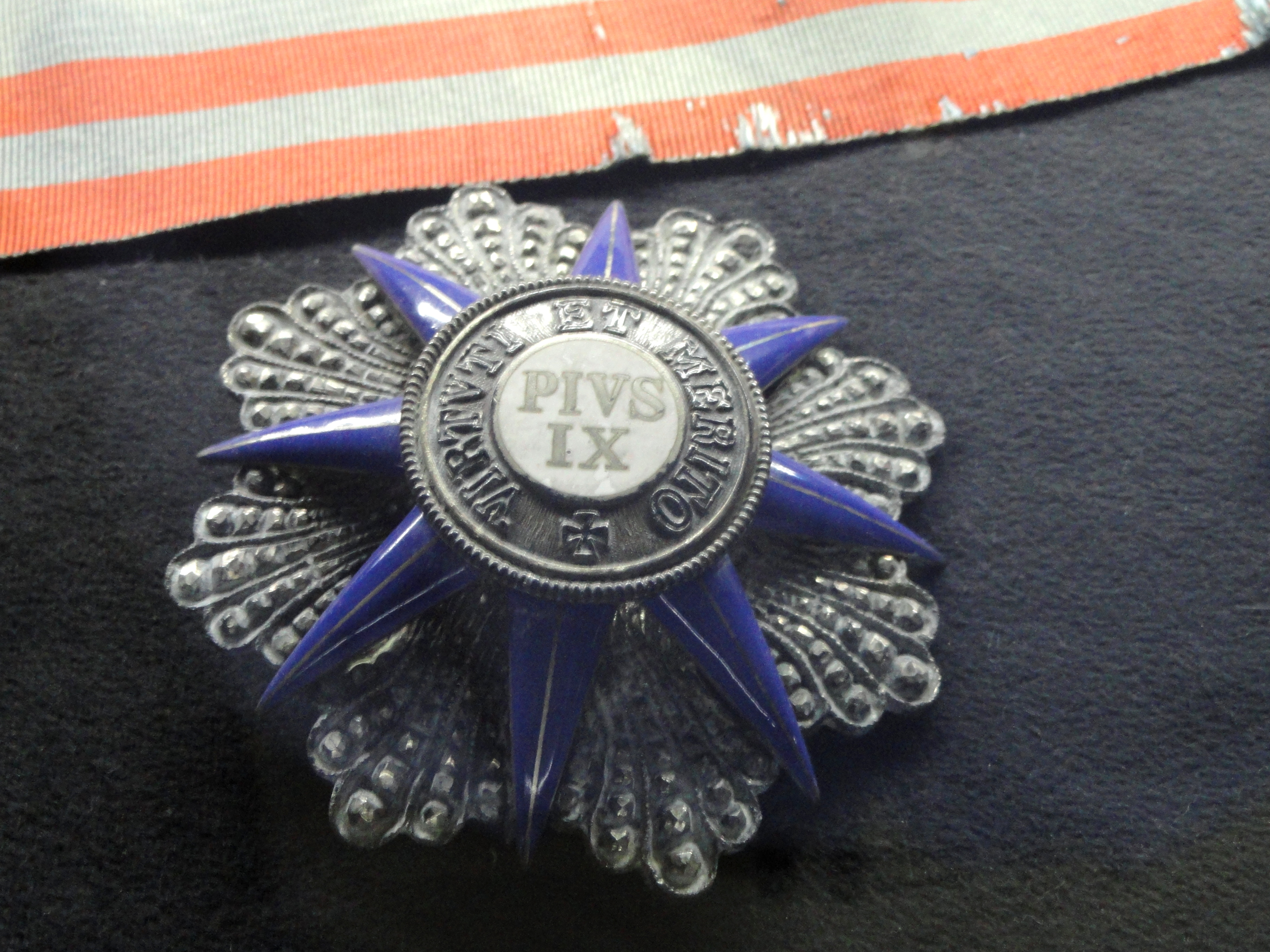 IExhibit in the Memorial JK, Brasília, Brazil.